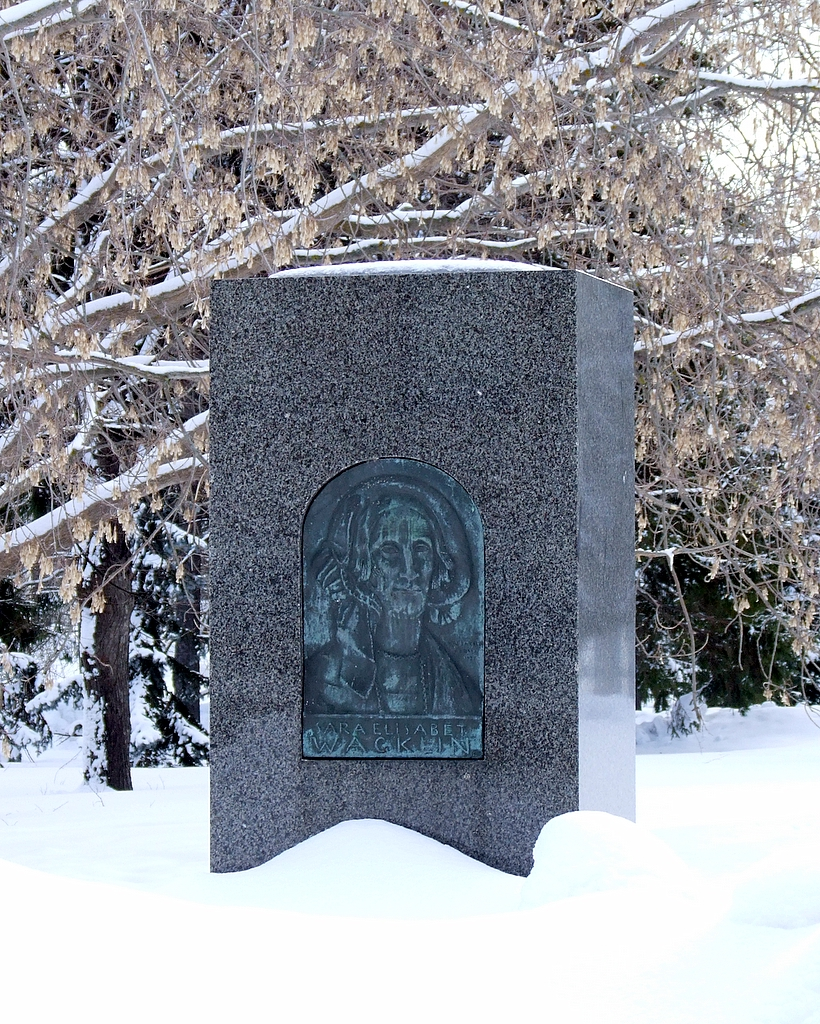 Statue of Sara Wacklin (1790–1846) by Into Saxelin (1883–1927) was made public in 1927. It can be found in the Ainola Park in Oulu, Finland.